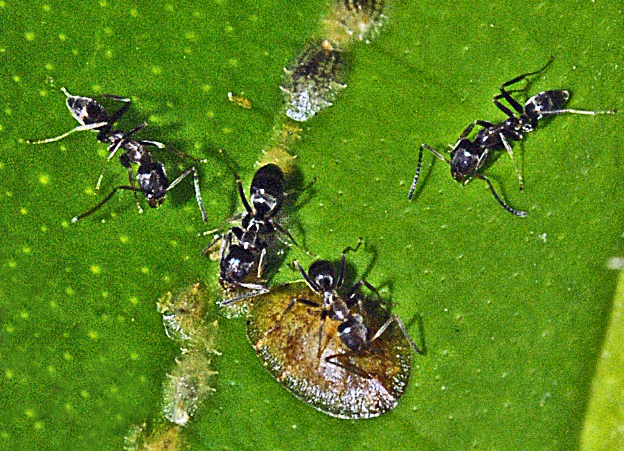 Tapinoma species with Wax scales on Citrus leaf. Bogliasco, Genova. Italy